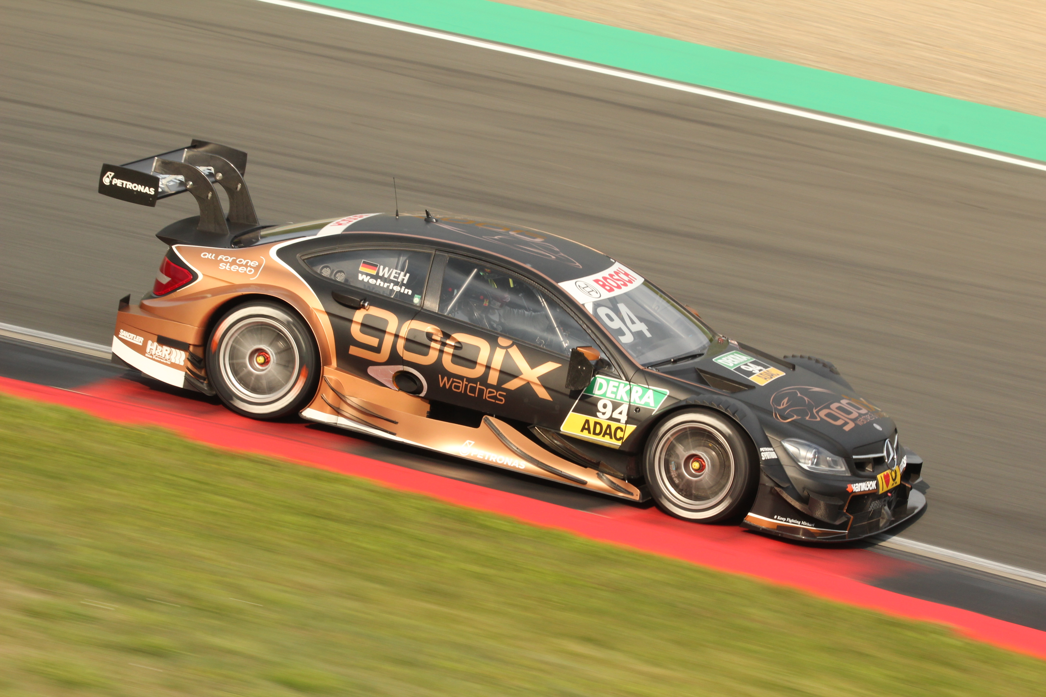 Pascal Wehrlein at Oschersleben in 2015, DTM